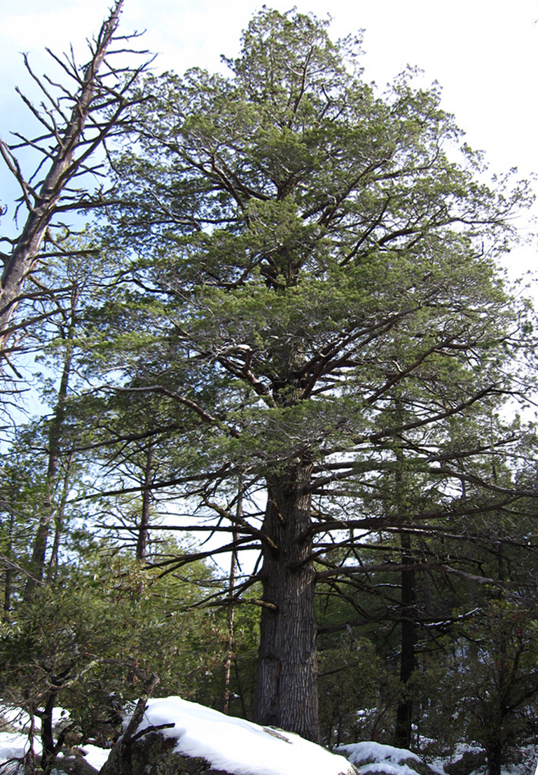 Arizona Cypress Cupressus arizonica in the Chiricahua Mts in SE Arizona